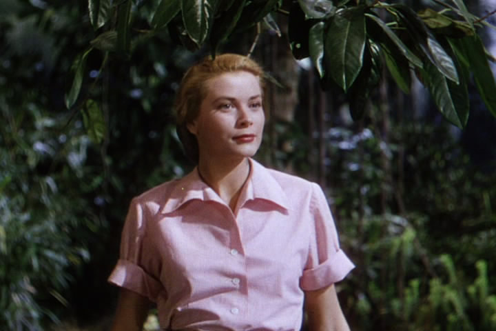 Screendhot of Grace Kelly from the trailer of film Mogambo